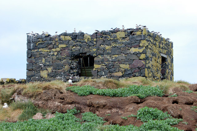 Remins of Peel tower, Staple Island